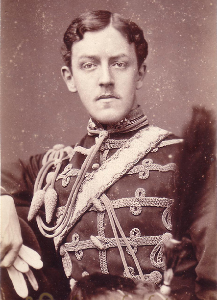 "Sub-Lieutenant Studd, 15th Hussars", Carte-de-Visite, Studio Owen Angel in Exeter, Devon. Alnod Ernest Studd (1857-1906) was the 2nd son of Lt. General Edward Mortlock Studd (1799-1877), of Oxton House, Kenton, Devon. He was a distinguished chess player, who after a brief military career in the 15th Hussars (1875-9) became bankrupt in 1901 through speculation on the Stock Exchange in 1882 and from a failed investment in 1891 in a coffee estate at Bundara, Mysore, India. (